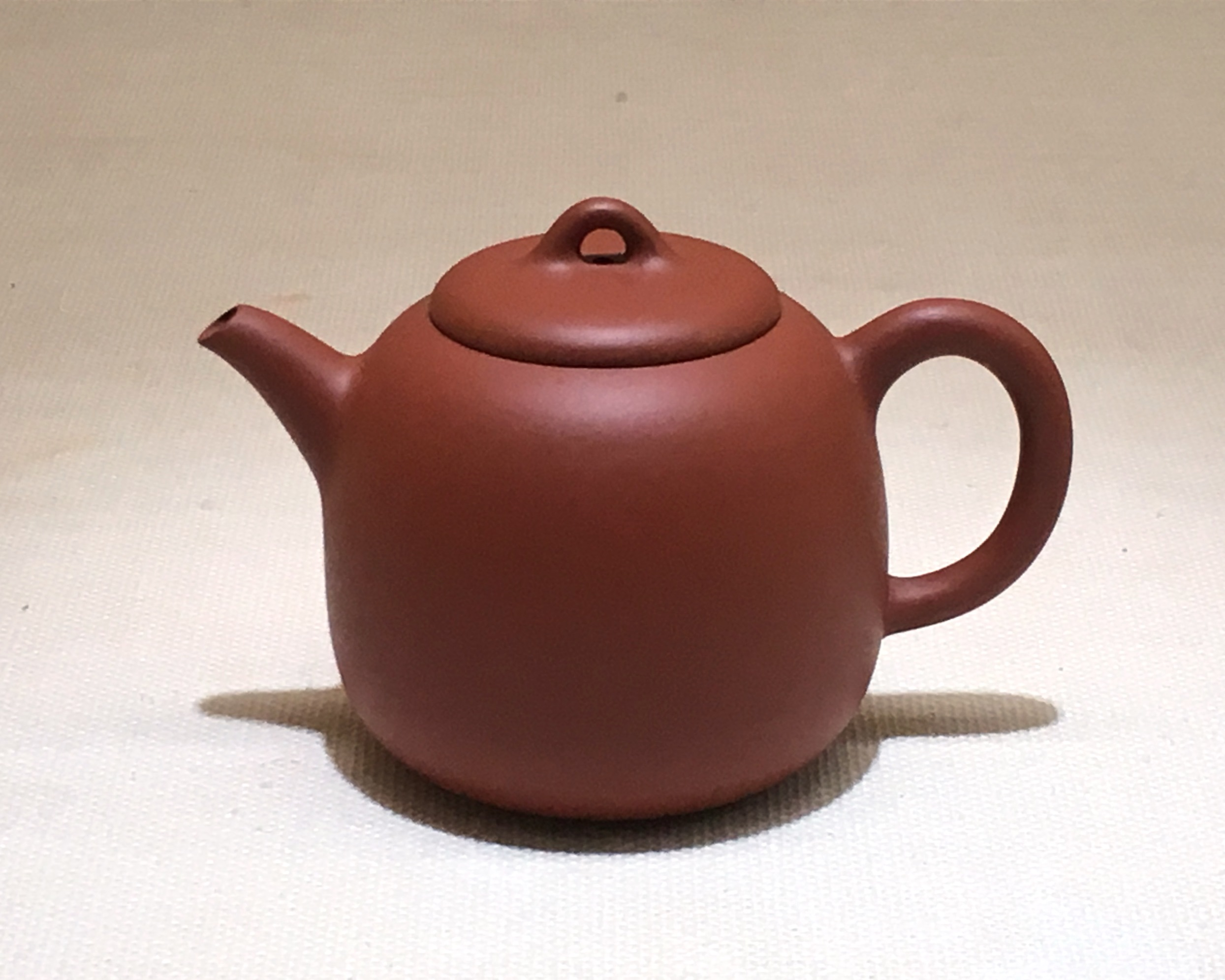 Tea pot, Tokoname ware By Yamada Jozan I (1868-1942) ca. 1921-1925 Aichi Prefectural Ceramic Museum (Gift of Yamada Jozan III)